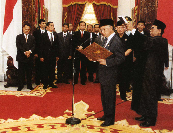 Bacharuddin Jusuf Habibie takes the oath of office as President of Indonesia, replacing Suharto after his resignation.